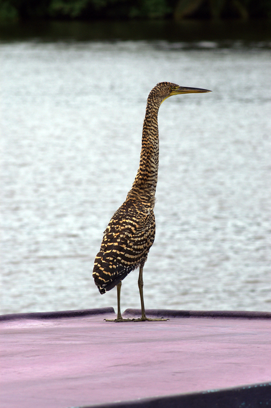 Bare-Throated Tiger Heron - Tigrisoma mexicanum